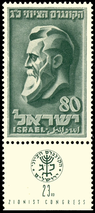 23rd Zionist Congress stamp - 80 mil